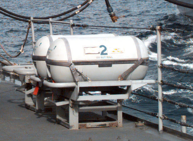 Crop focusing on decoys. Sailors on board the US Navy's spruance class destroyer USS MOOSBRUGGER (DD 980) heave over a fuel line and probe from the US Sealift supply ship USNS KANAWHA (TAO 196), during underway replenishment operations off the coast of Venezuela, during phase one of operation UNITAS 37-96. UNITAS is an annual operation in which a US Navy task group conduct combined exercises with participating navies.